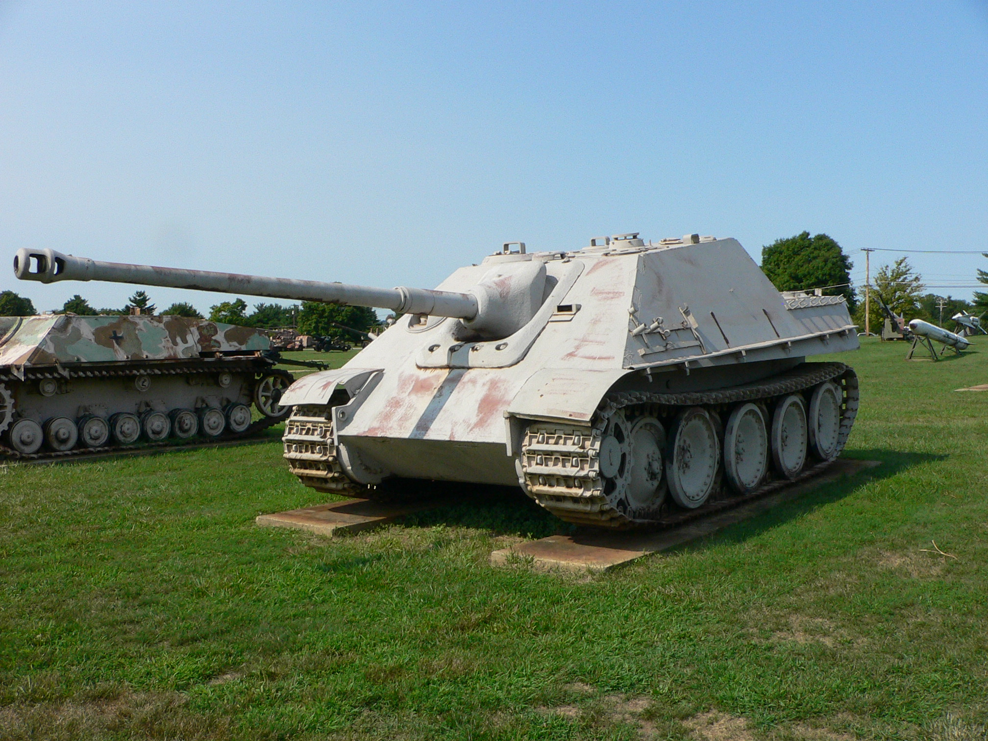 Picture taken by myself, Mark Pellegrini, at the United States Army Ordnance Museum (Aberdeen Proving Ground, MD) on June 12, 2007.